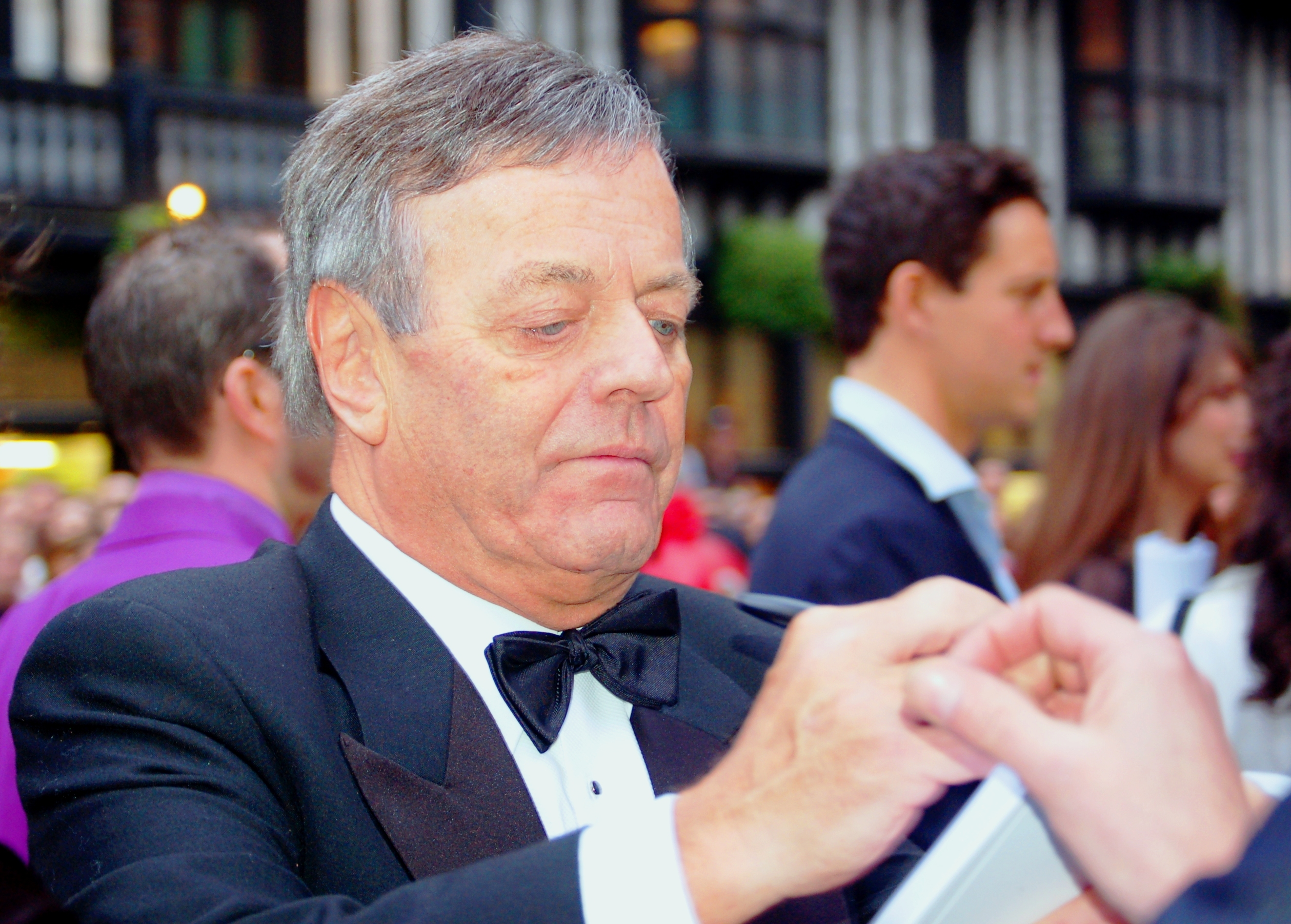 Taken just before the BAFTA awards, London. Originally this was on the Flickr website: of which I am a member.